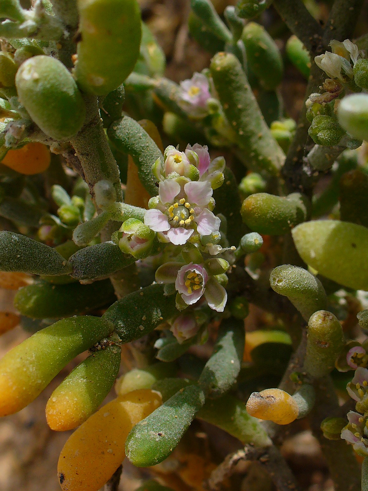 Buds and flowers; Charco del Palo, Lanzarote, Canary Islands, Spain.